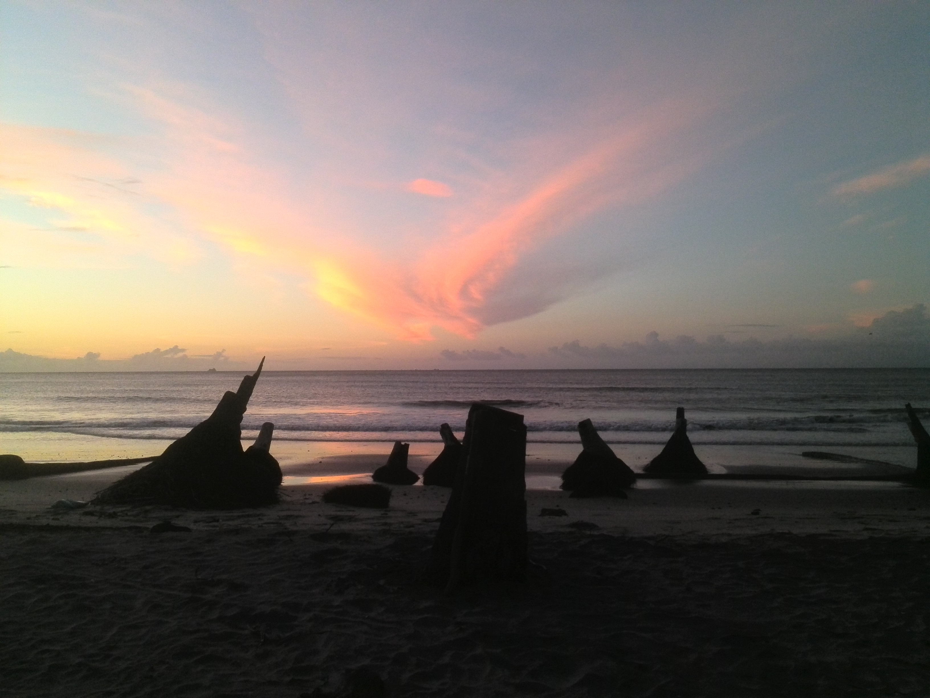 Coral Point, Icacos, Siparia, Trinidad and Tobago.